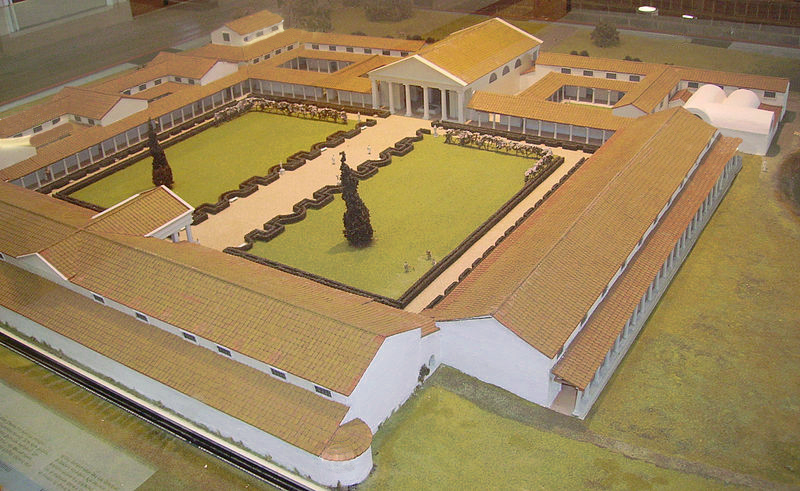 view of Fishbourne Roman Palace in West Sussex, United Kingdom, model, at base foto by Immanuel Giel